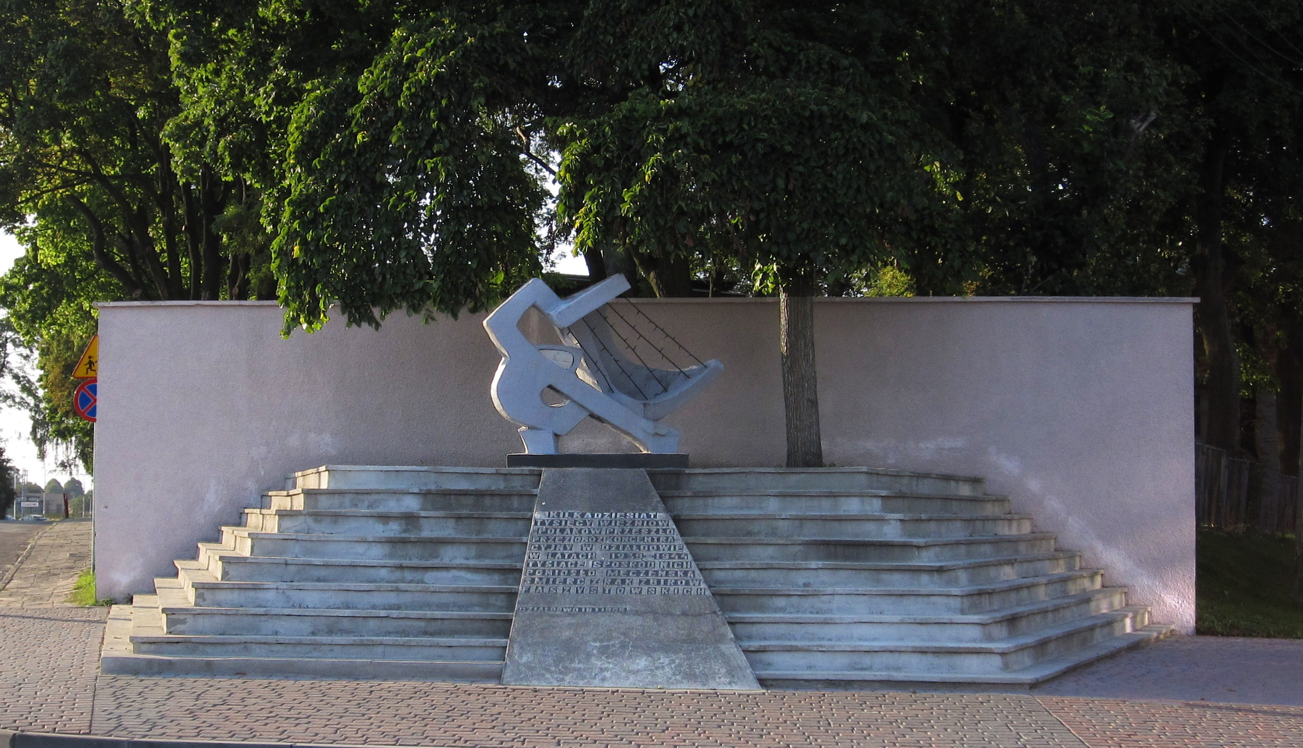 Działdowo - A monument commemmorating the victims of the concentration camp KL Soldau set up by Nazi Germany in Działdowo during World War II